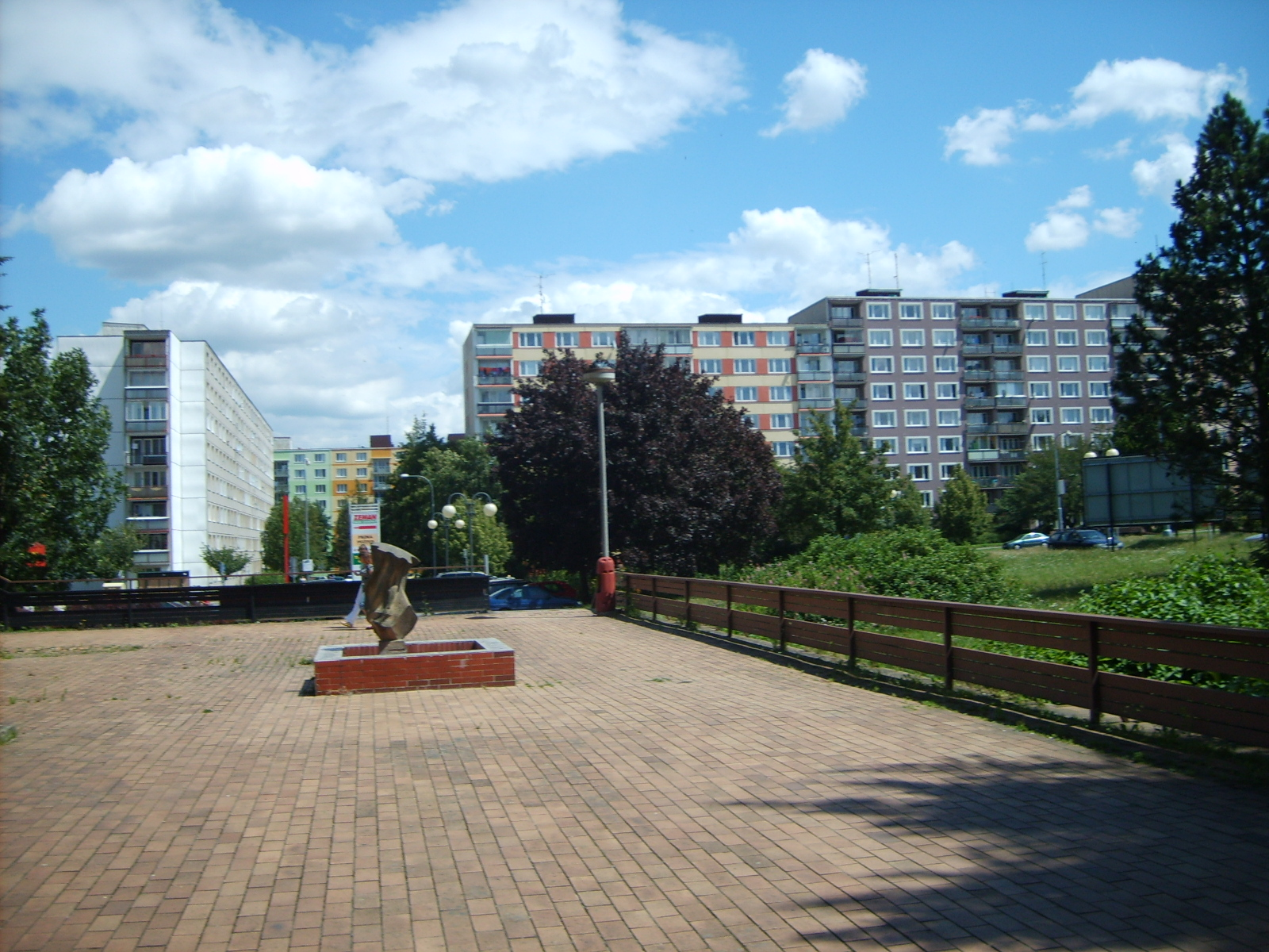 Skvrňany development in Pilsen, 3rd city borough. Development was built in early 1970s.